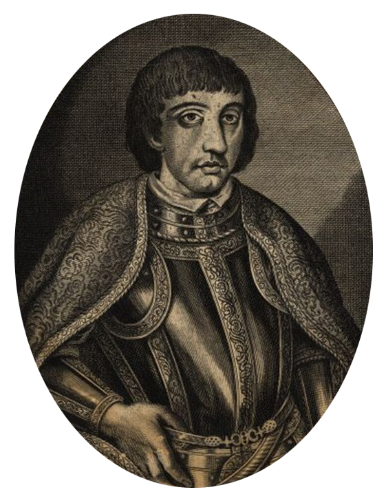 Dom Afonso I, 1st Duke of Braganza (1377-1461), founder of the House of Braganza.